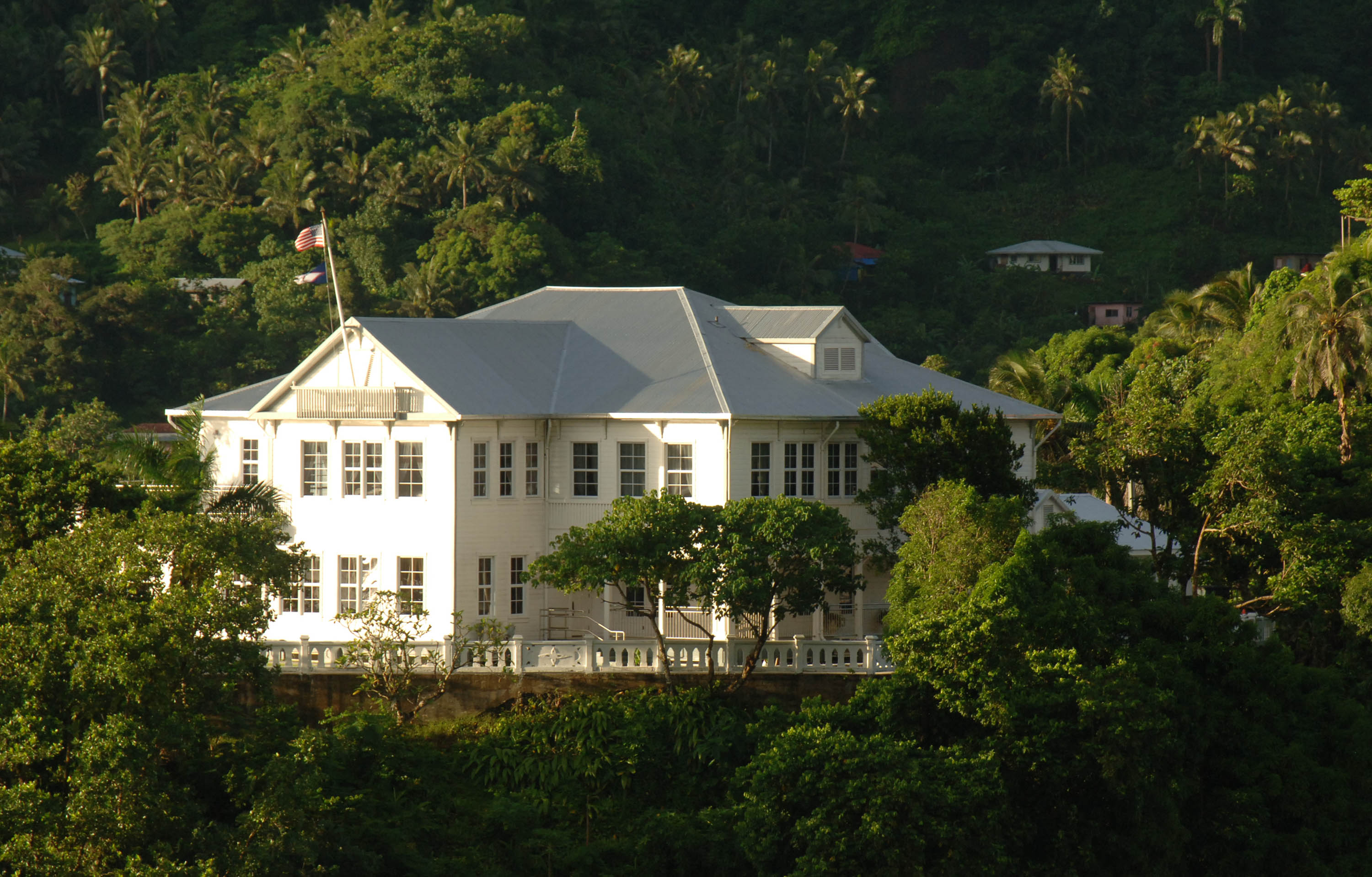 Government House. Located on Togotogo Ridge above Pago Pago Harbor.